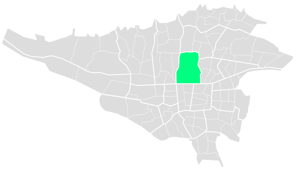 Region 6 of Tehran